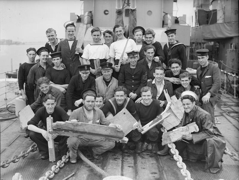 Destroyer Sinks U-boat Off North African Coast. 24 February 1943, Algiers. Some of the ship's company of the British destroyer HMS BICESTER with the wreckage thrown up by their depth charge attack on a U-boat. The U-boat was lying in wait to attack our shipping off the North African Coast.